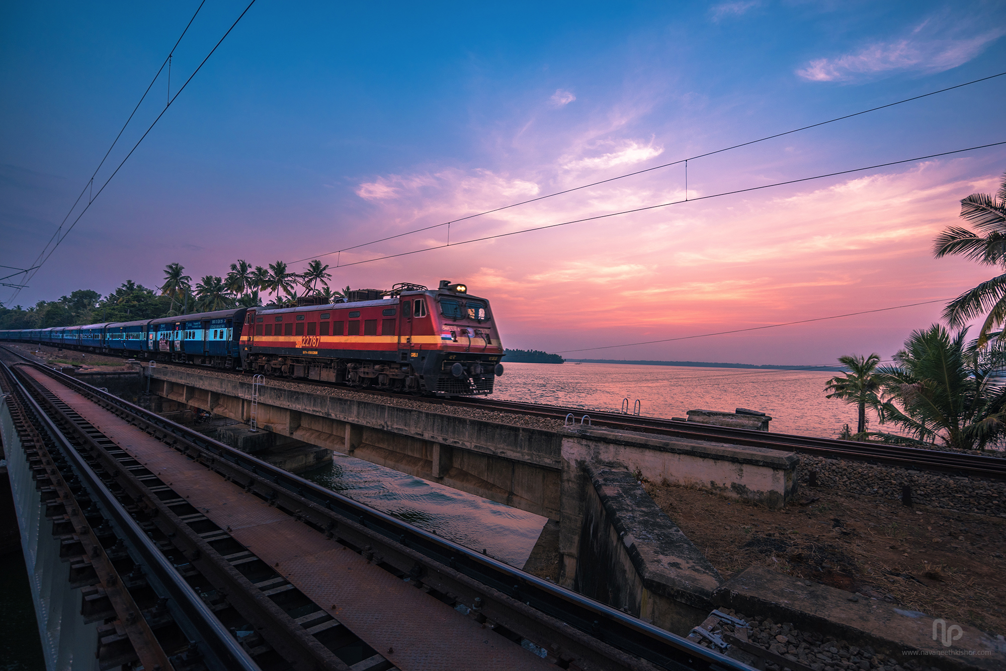 A train hauled by WAP-4 crossing Peruman Bridge